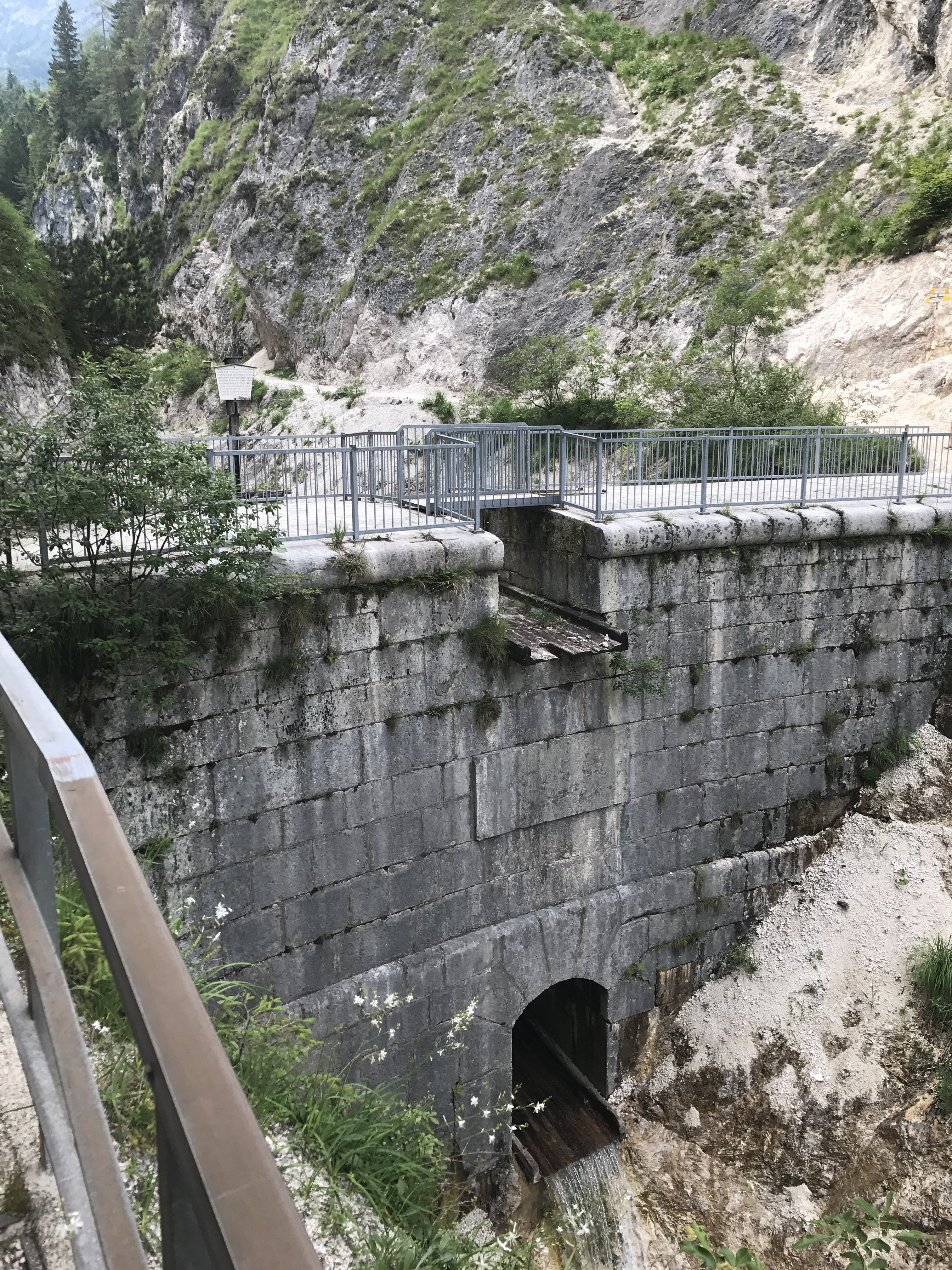 Theresienklause in Almbachklamm near Marktschellenberg, Berchtesgadener Land, Germany.